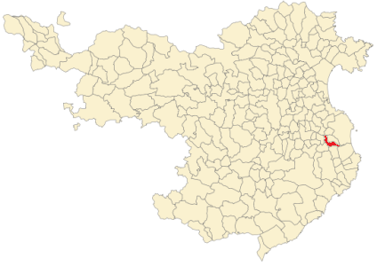 Fontanilles